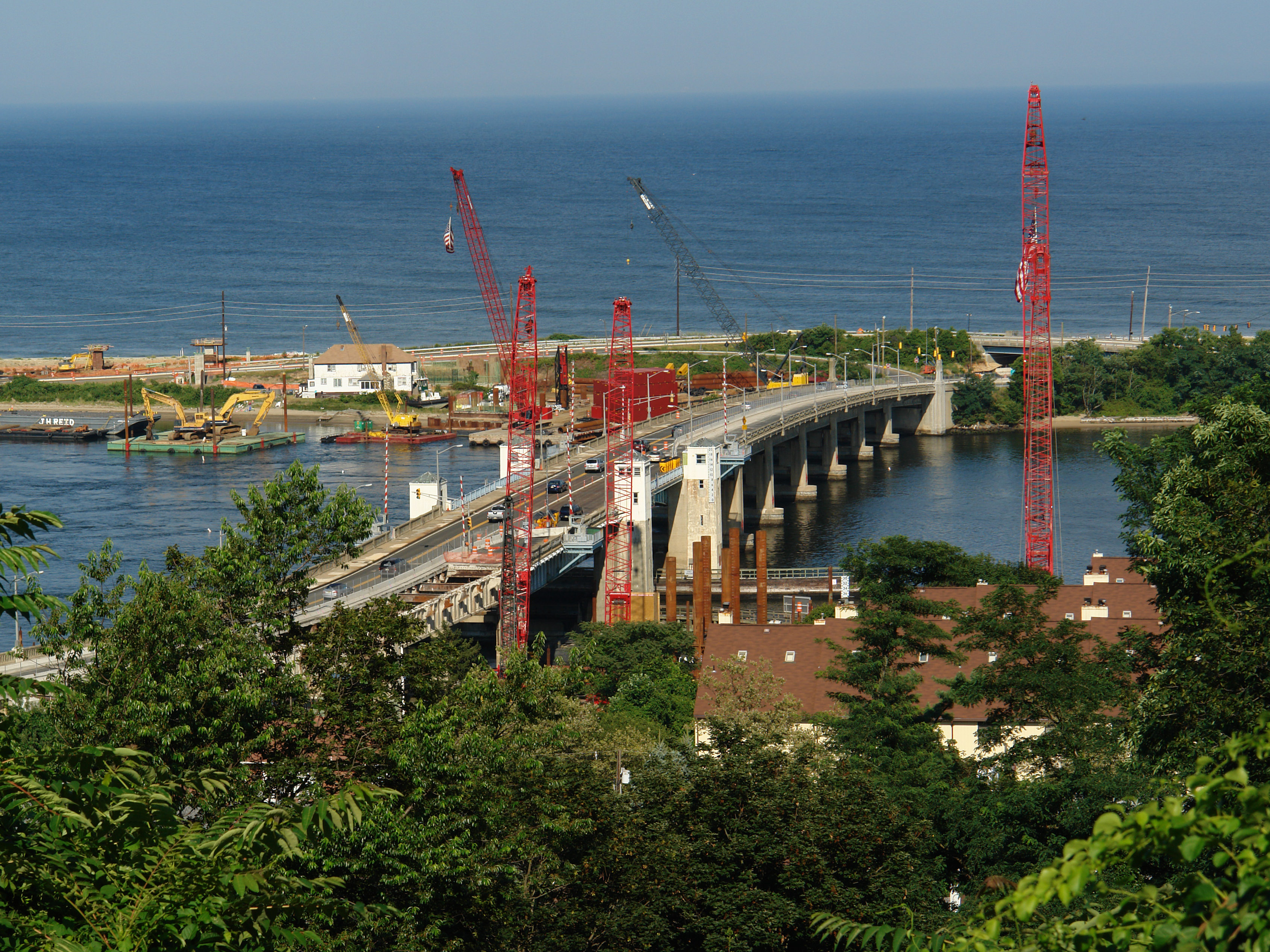 The Highlands-Sea Bright Bridge between Highlands and Sea Bright, New Jersey during demolition on July 24, 2008. The bridge crosses the Shrewsbury River at the base of the Sandy Hook peninsula. Photo taken from Twin Lights.